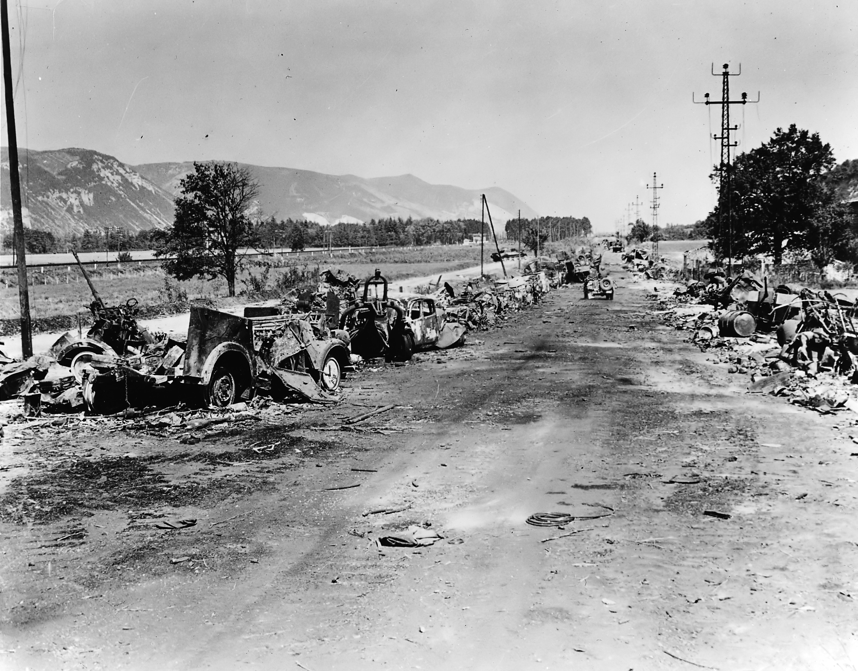 The retreating Nazi in France gets no rest from the Allied Air Forces. The photograph shows how his convoy and vehicles are continually under bombardment of allied airmen. An American jeep drives through two twisted lines of what used to be the transport of a German Panzer division, knocked out by P-47 Thunder-bombers, and then piled high on either side of the road by bulldozers of the advancing 7th Army in France.